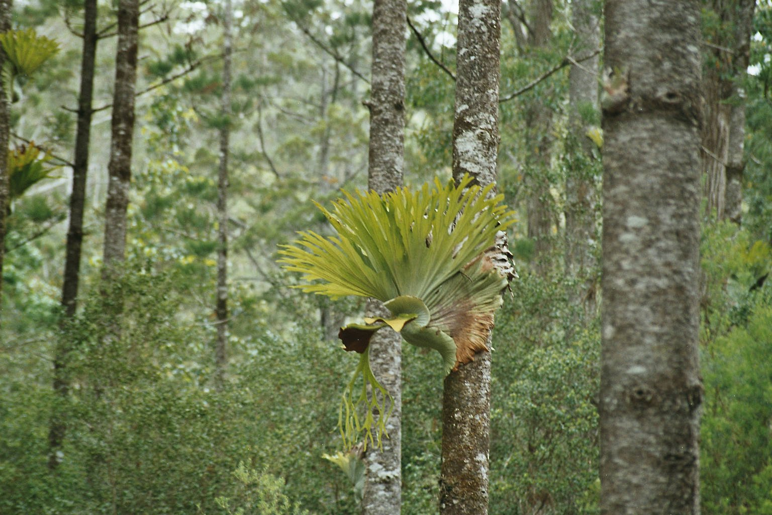 Wild plant living off fallen leaves and water. Fraser Island, Central Station. Author: Frank Kam 2002